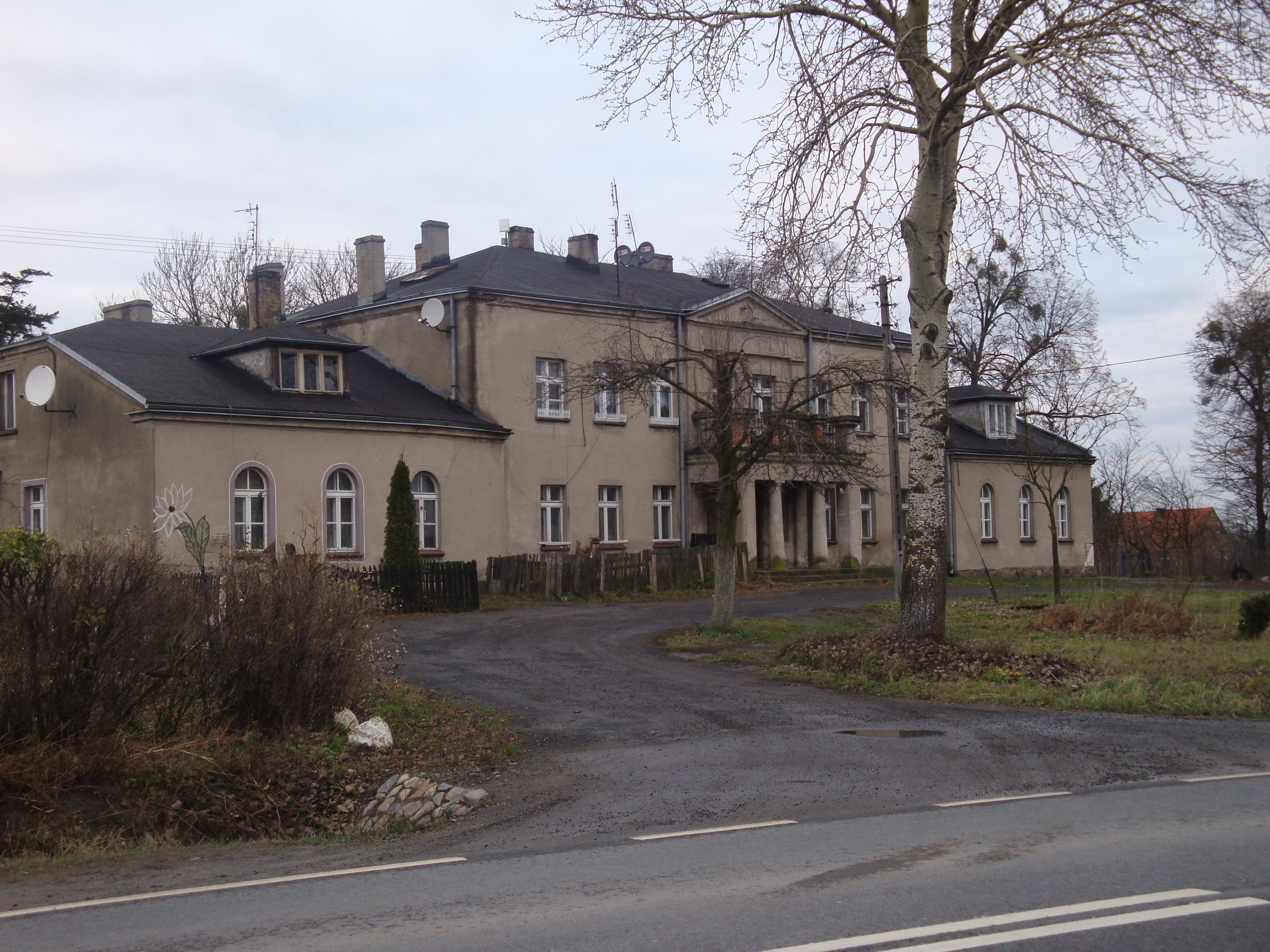 Former manor house in Klęczkowo, Poland